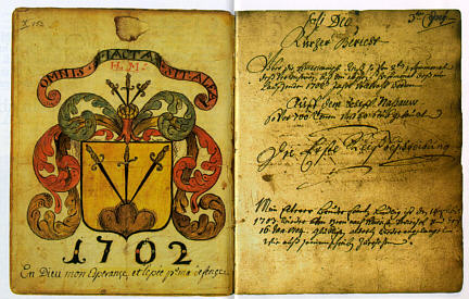 Page from Journal of Franz Michel, 1702, showing Michel coat-of-arms and first page of journal. The journal was Michel's description of his travels in the Southern Colonies, and particularly in Virginia and North Carolina, where he became one of the founders of the town of New Bern, an early capital of North Carolina.